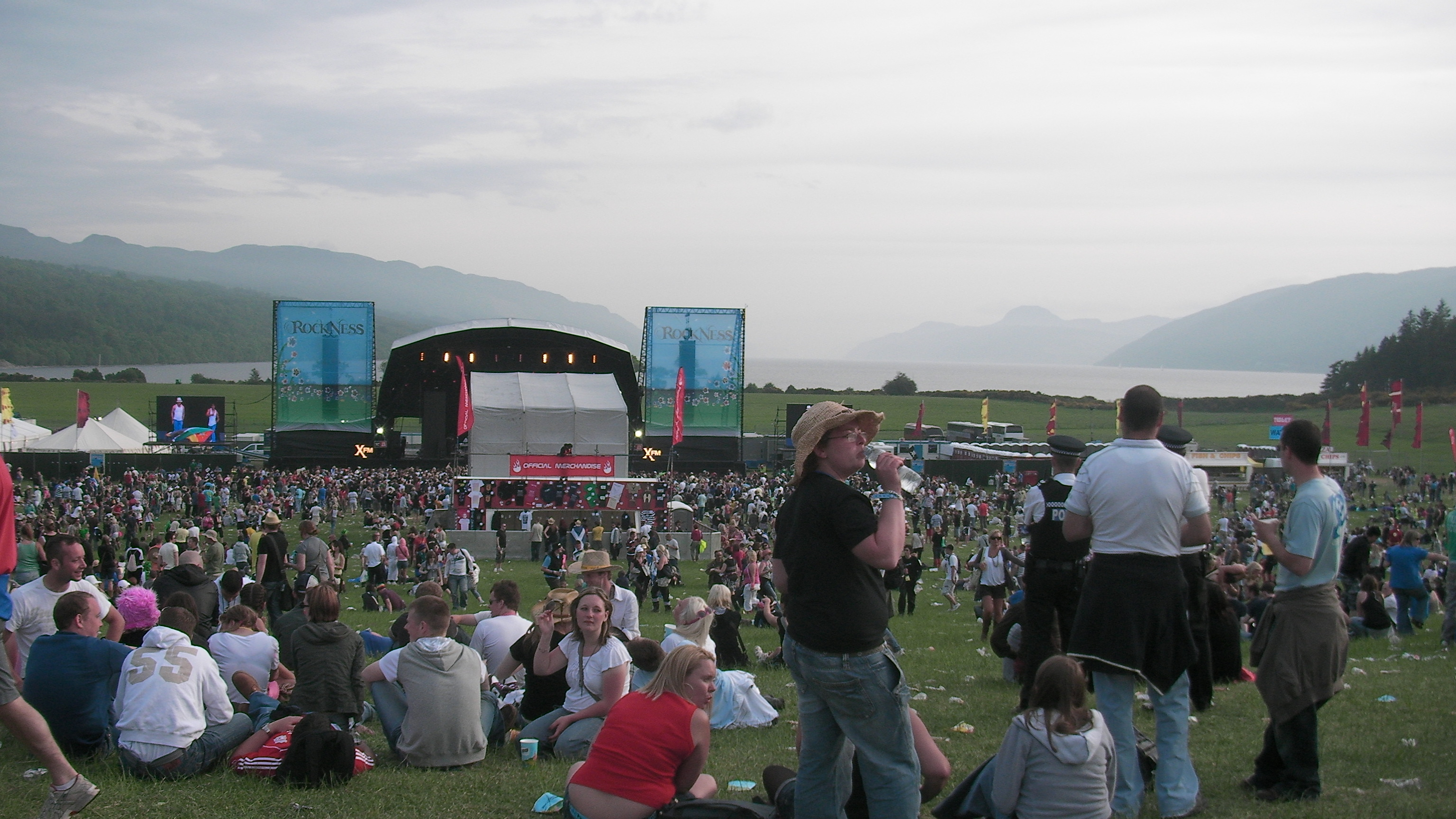 Main stage and view of Loch Ness during the Rock Ness Festival 2008.